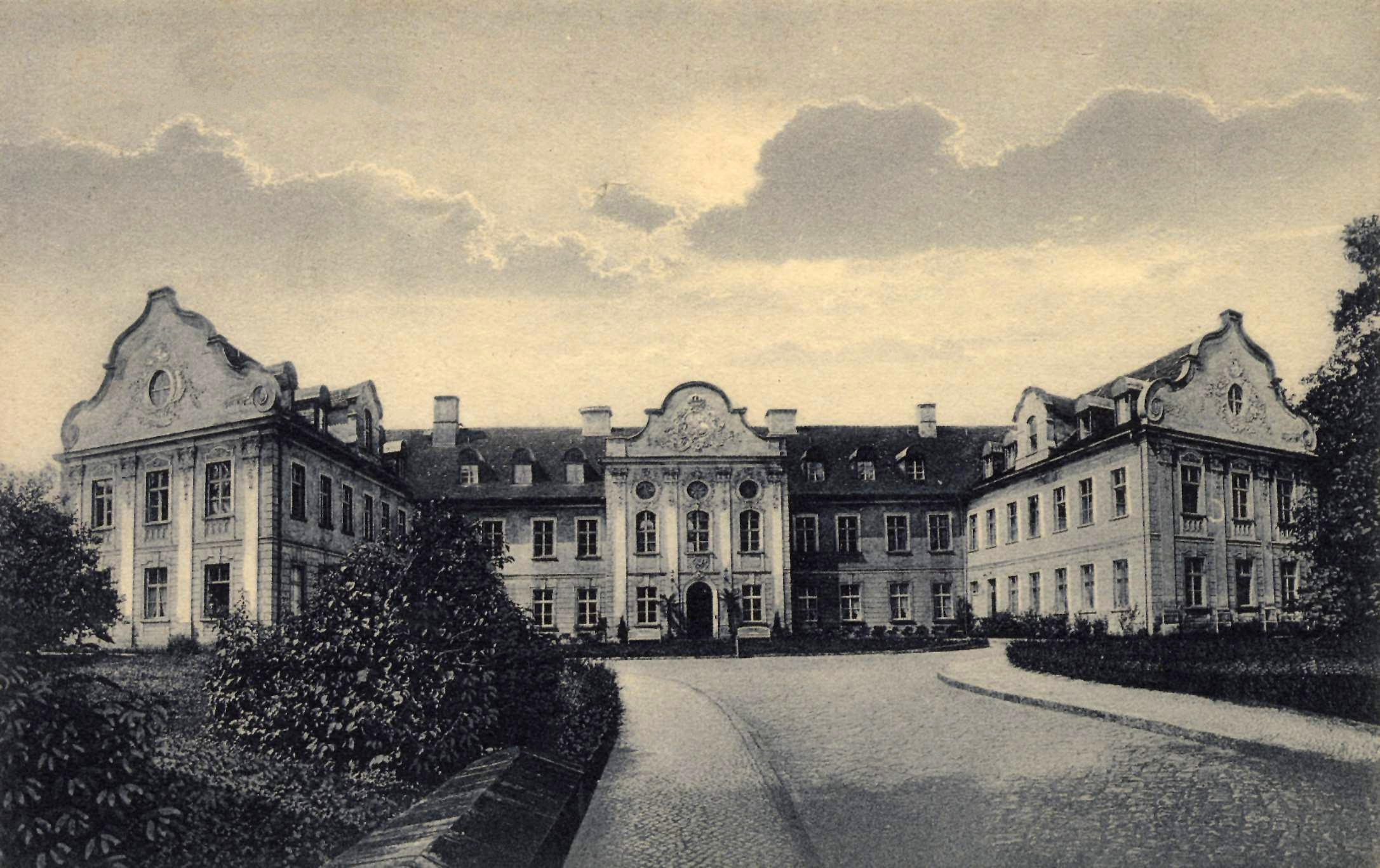 Postcard showing the castle of Fürstenberg/Havel when used as as sanatorium.